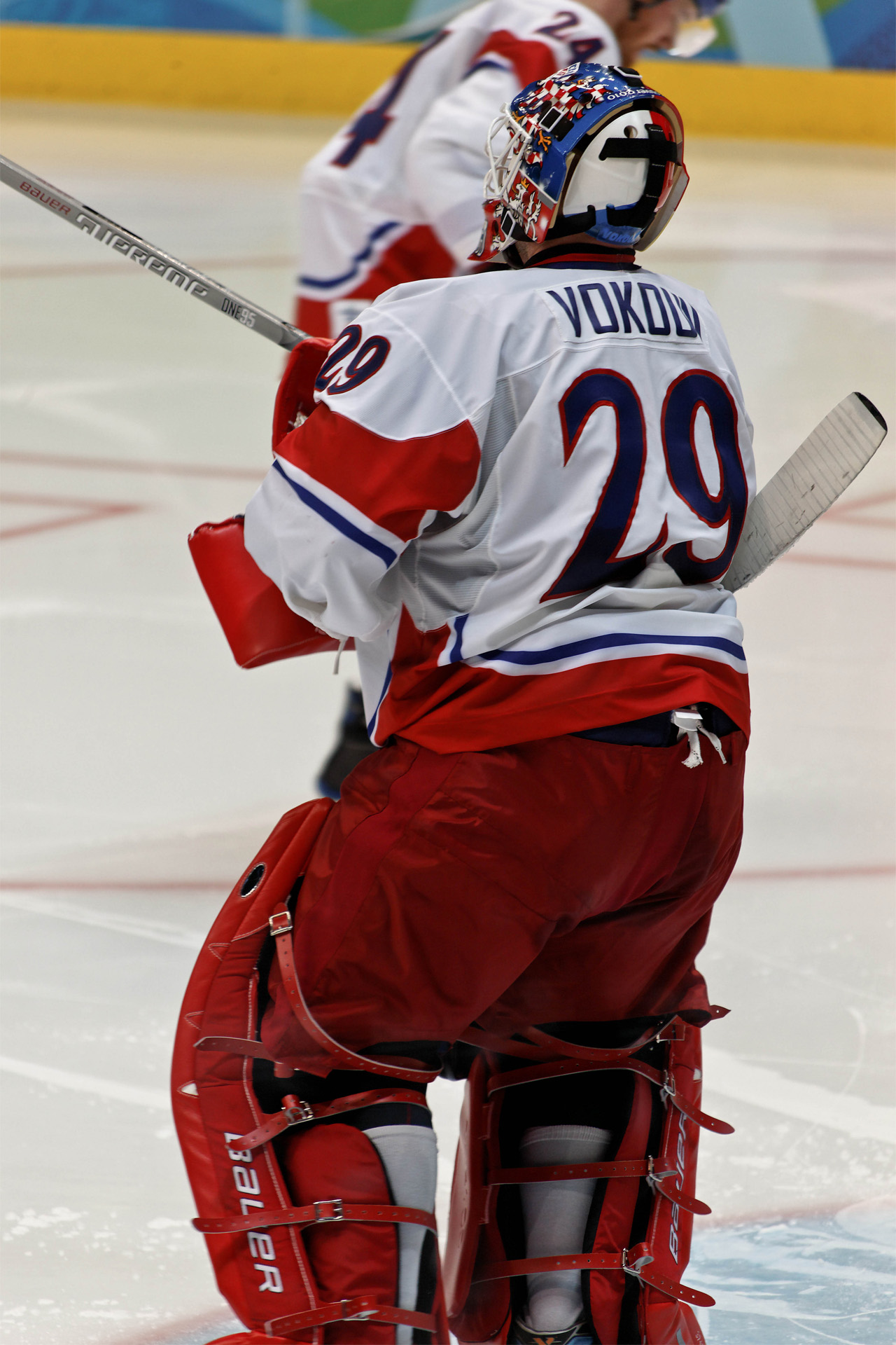 Czech goaltender Tomáš Vokoun prepares for a game against Slovakia at the Winter Olympics.